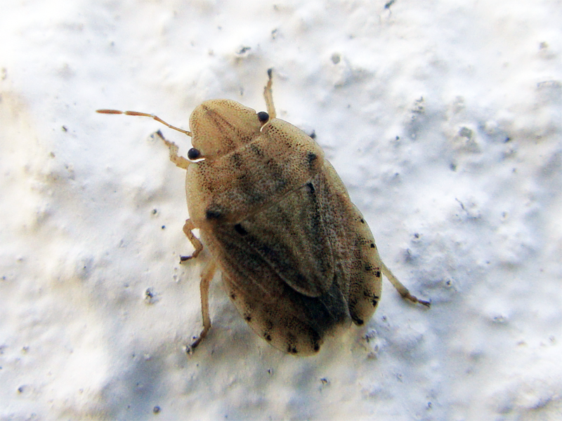 Sciocoris sulcatus in Ansião, Leiria, Portugal